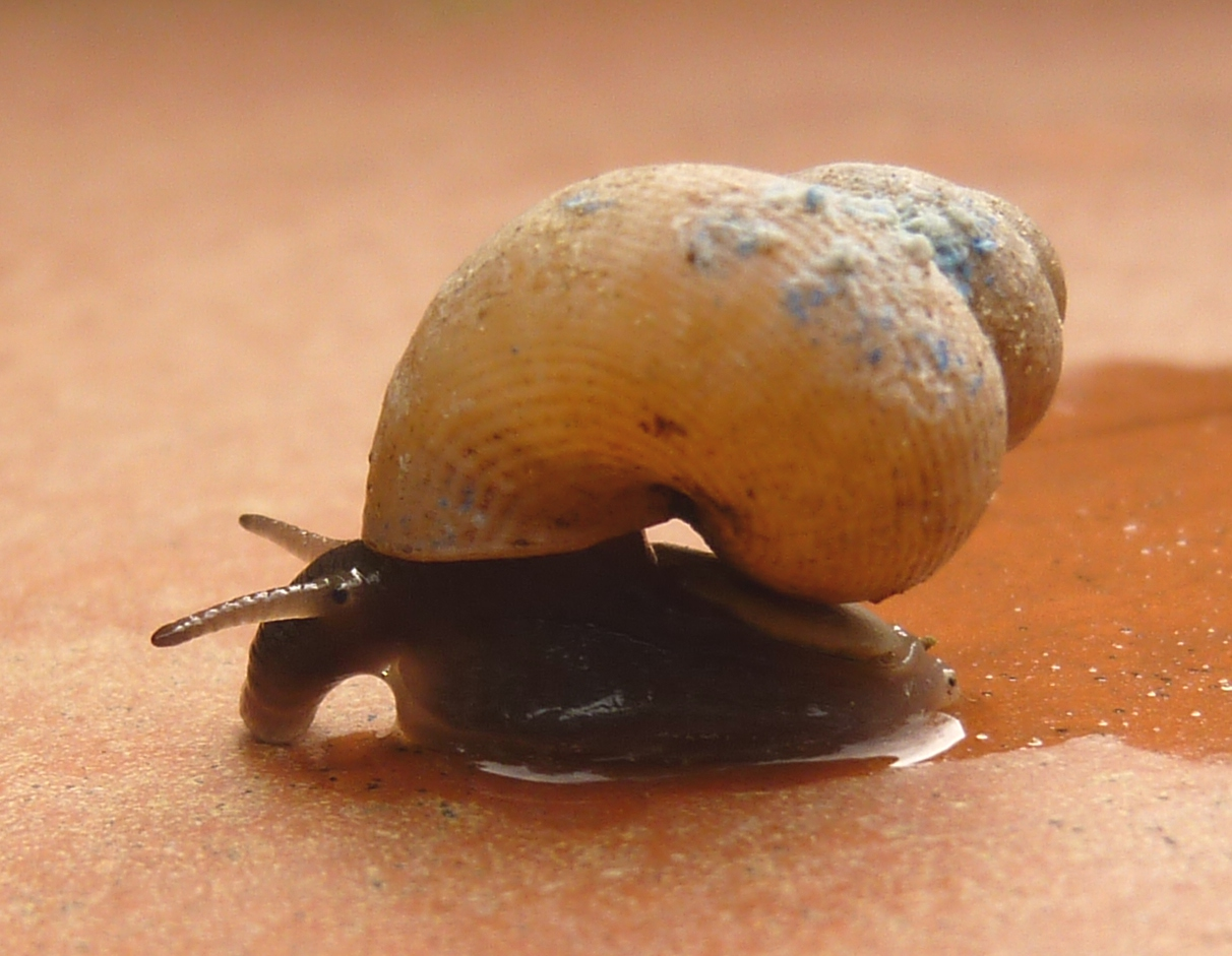 Pomatias elegans Montgrí Massif, May 2012. Note the presence of calcareous operculum fallen back under the shell, eyes at the base of the tentacles and its proboscis.